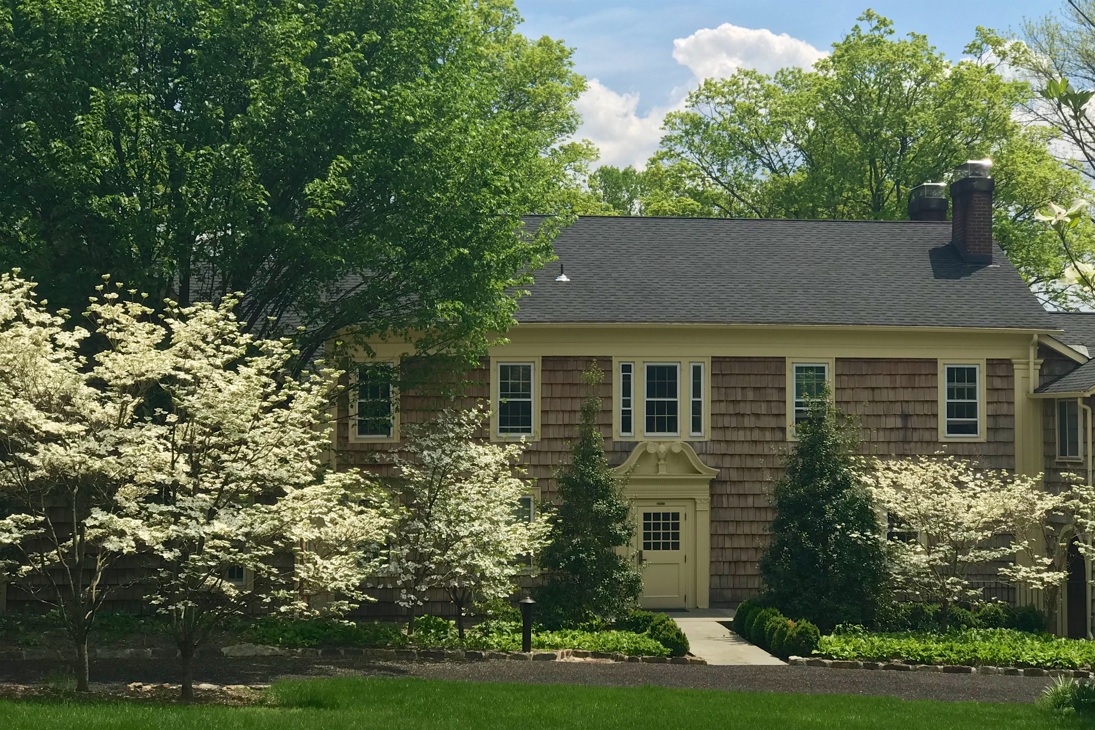 Dogwoods in bloom in front of the main residence, home of Martha Brookes Hutcheson, at the Bamboo Brook Outdoor Education Center in Chester Township, New Jersey.